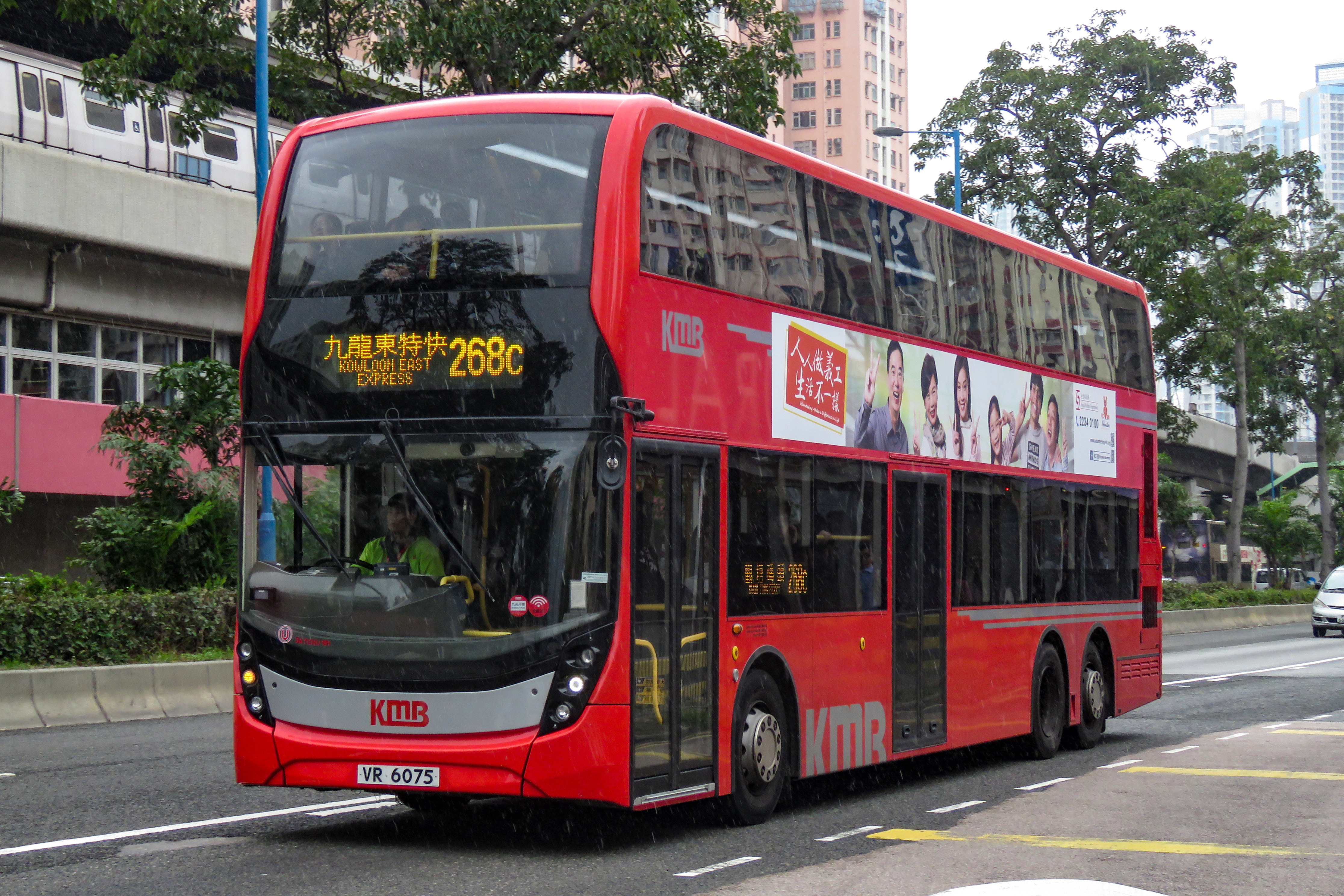 With "Kowloon East Express" promotional display.